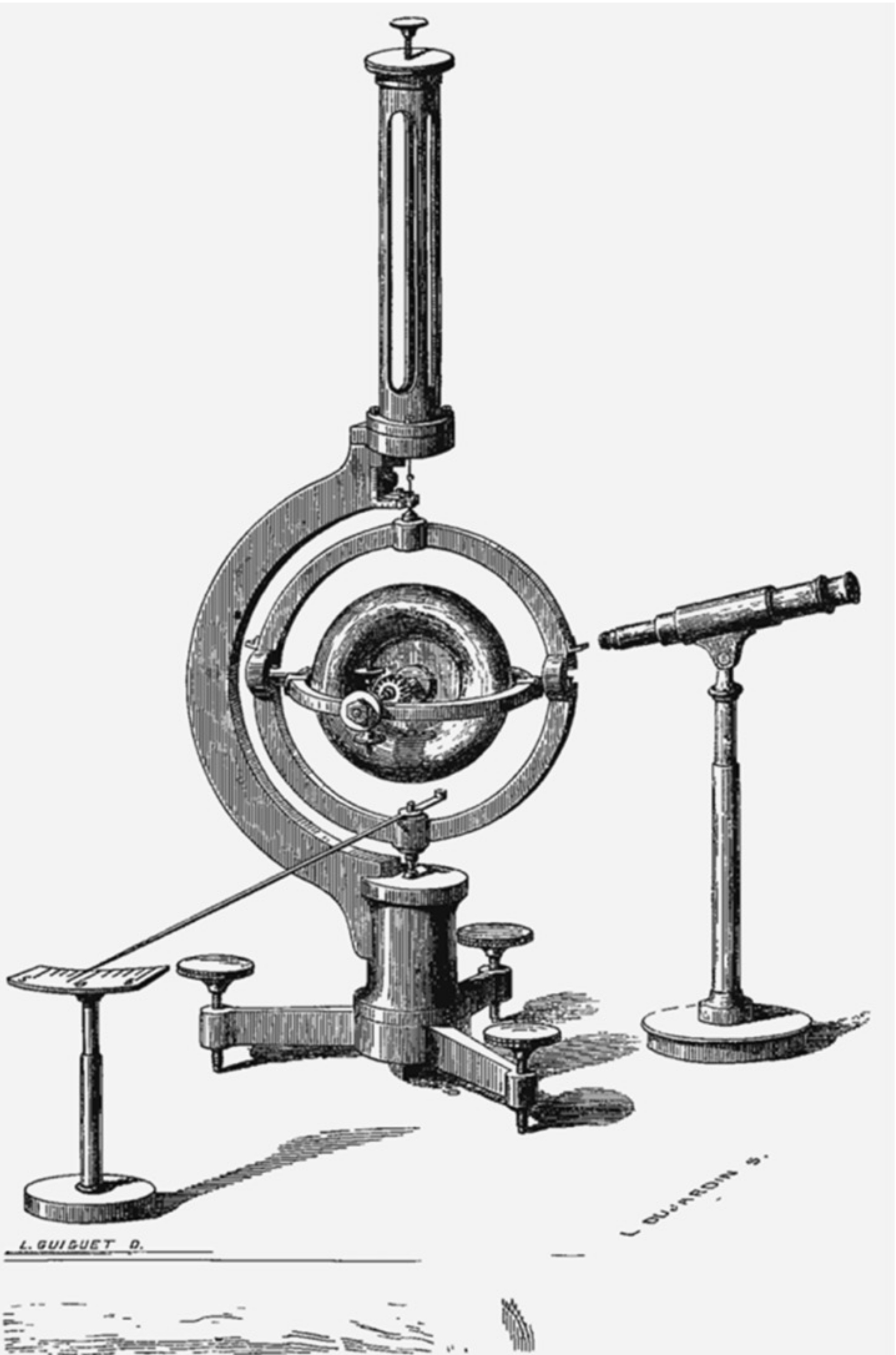 Foucault's gyroscope